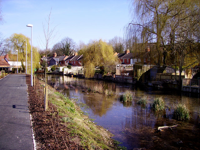 Andover - The River Anton The River Anton winds it way towards the centre of Andover.